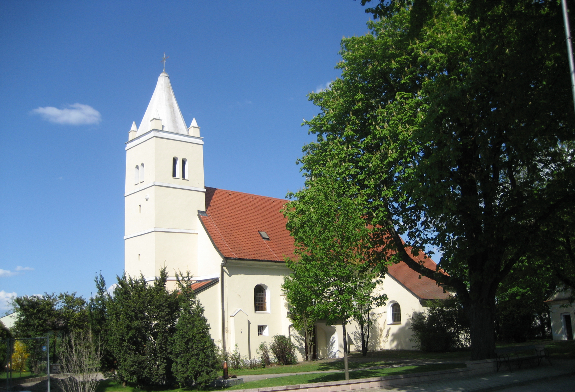 Church in Ringelsdorf, Lower Austria